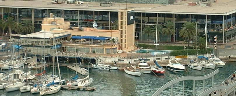 Taken 27 Oct 2004 14:21 from the Columbus Monument at Pl. Drassanes (Costal end of the Ramblas)